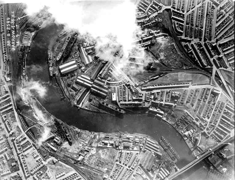 Queen Alexandra Bridge is in the bottom right hand corner. Sir James Laing and Sons Deptford Yard takes up most of the centre of the image while Ayres Quay Bottle Works is obscured by the cloud. This rare image comes from the Gladstone Adams Collection. Reference: TWAS: DT.GA.4.1-4 (Copyright) We're happy for you to share this digital image within the spirit of The Commons. Please cite 'Tyne & Wear Archives & Museums' when reusing. Certain restrictions on high quality reproductions and commercial use of the original physical version apply though; if you're unsure please To purchase a hi-res copy please quoting the title and reference number.